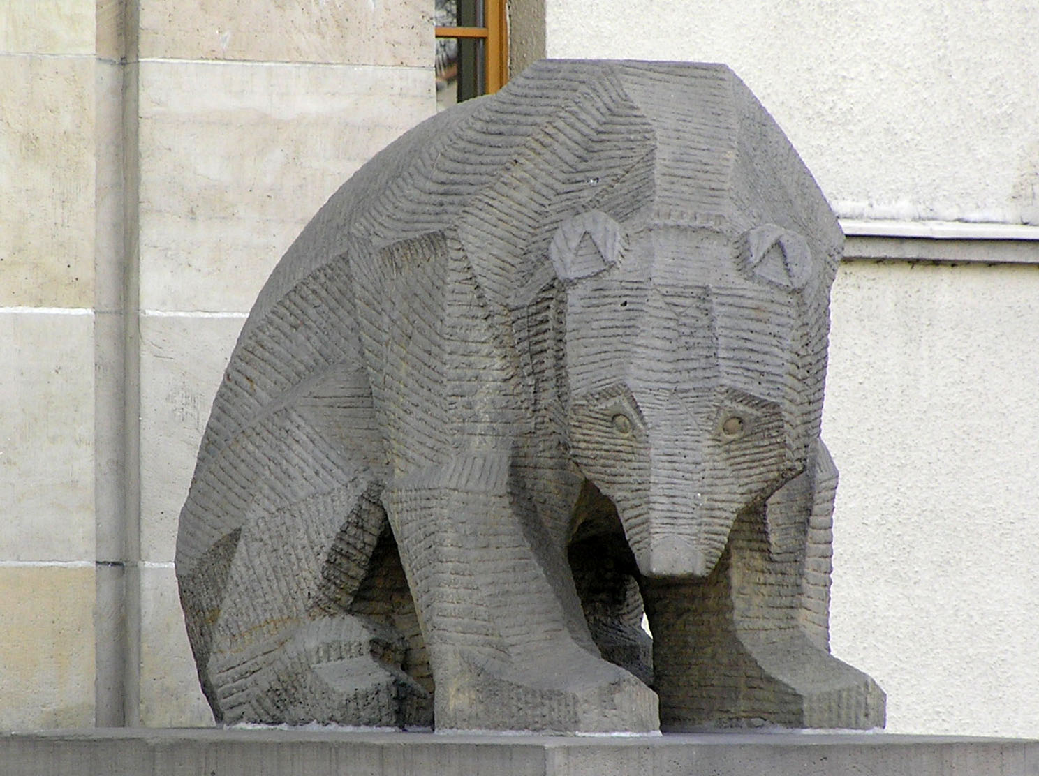 Toruń, Regional seat of National Forests Office, sculpture of bear by Ignacy Zelek (right)